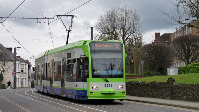 Tram Leaving Lebanon Road Stop Tram descends Addiscombe Road, towards East Croydon.